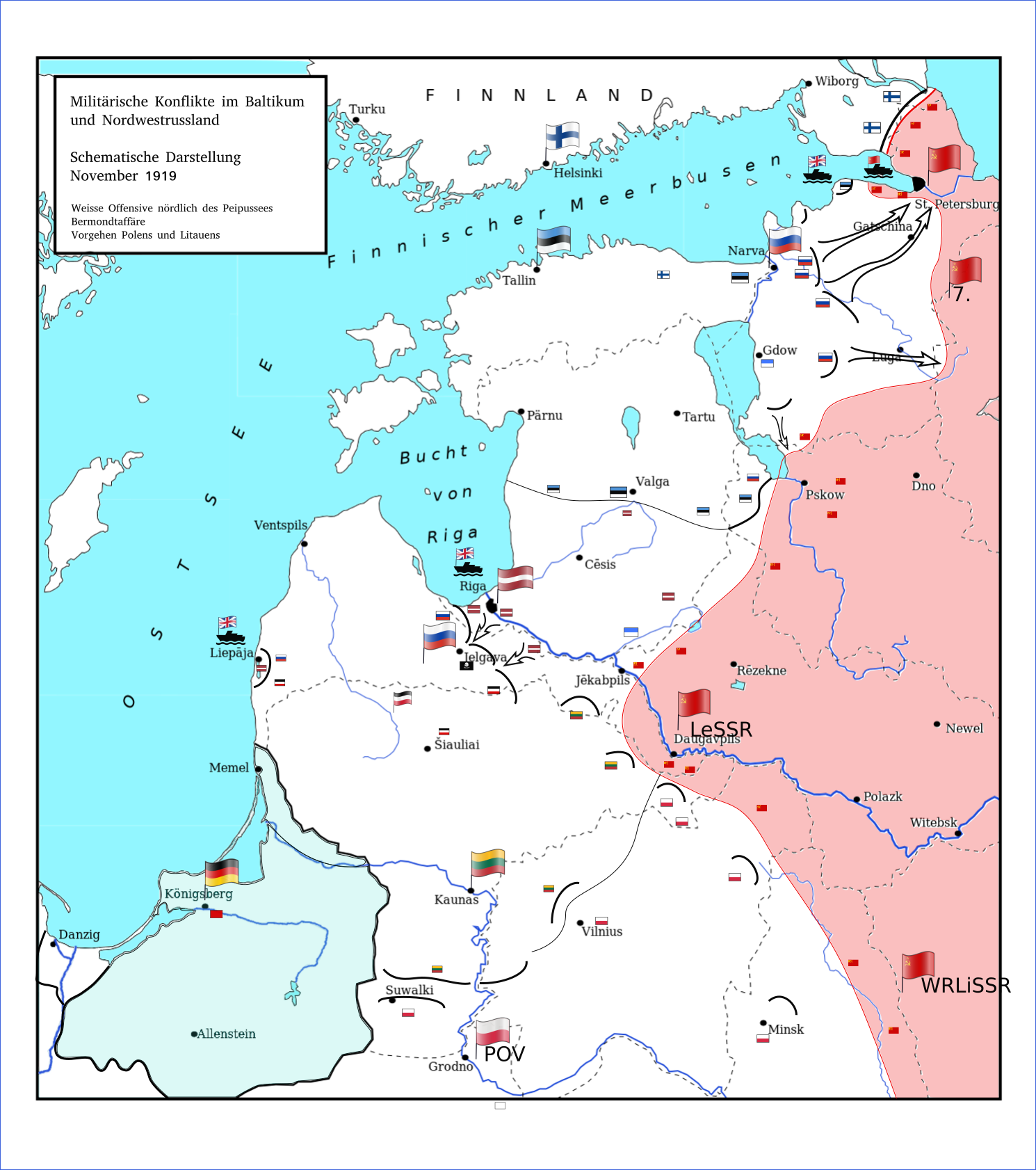 map of armed conflicts in the Baltics and North-West-Russia November 1919